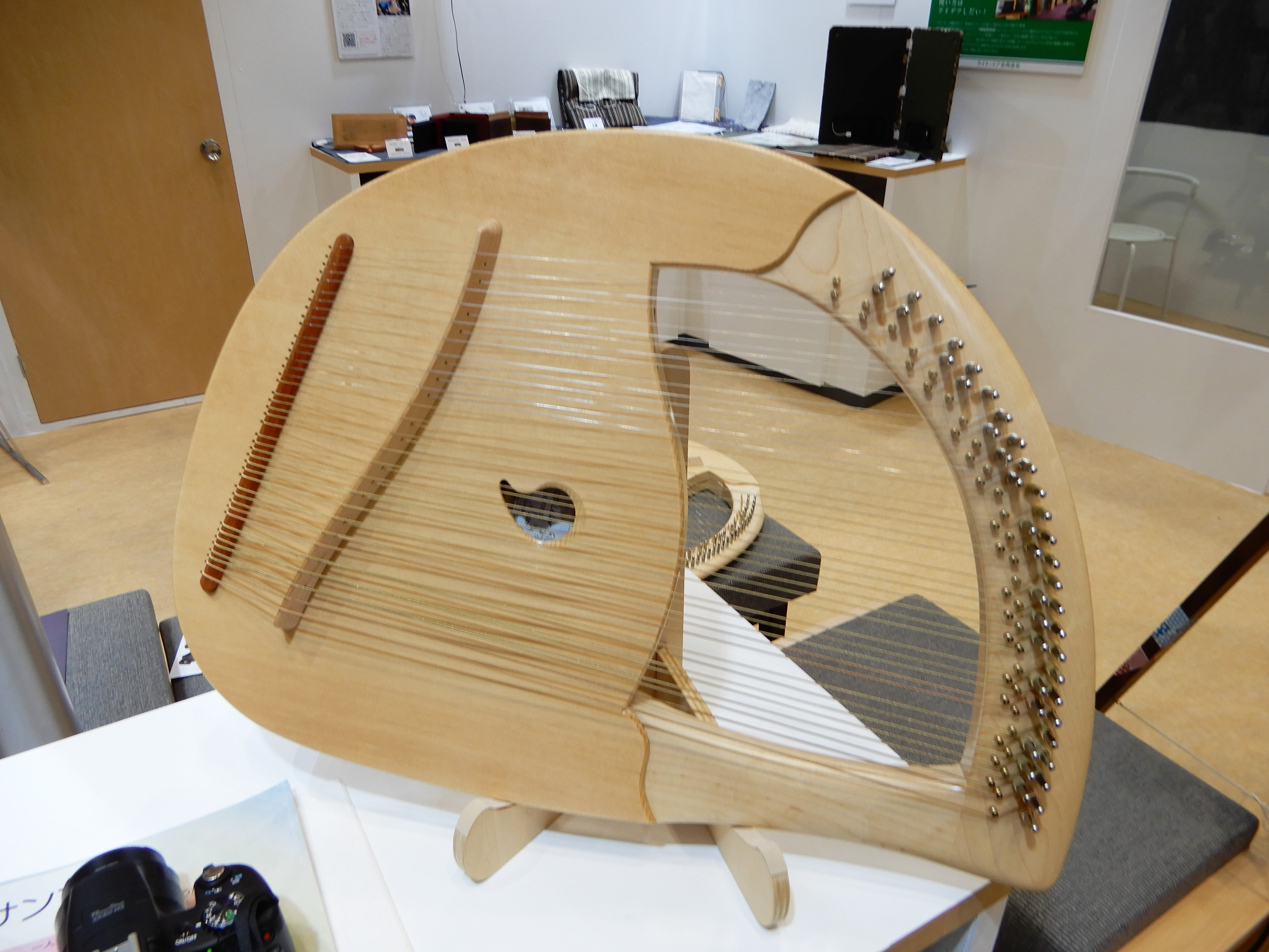 "Gärtner lyre" made in Japan.This modern lyre is often called "Leier". In 1926,Edmund Pracht and W. Lothar Gärtner redesigned the classical lyre and created this new model.In Hayao MIYAZAKI's animated film "Spirited Away", the Gärtner lyre was played in the closing song "Always With Me" by Yumi KIMURA. This photo was taken at Musical Instruments Fair Japan 2018. 中文（中国大陆）: 拍照地点 2018年日本东京国际乐器展。在宫崎骏的动画片《千与千寻》片尾曲《永远常在》里，日本音乐家木村弓边唱边弹这个竖琴。